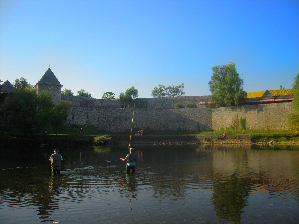 Vrbas in Banja Luka